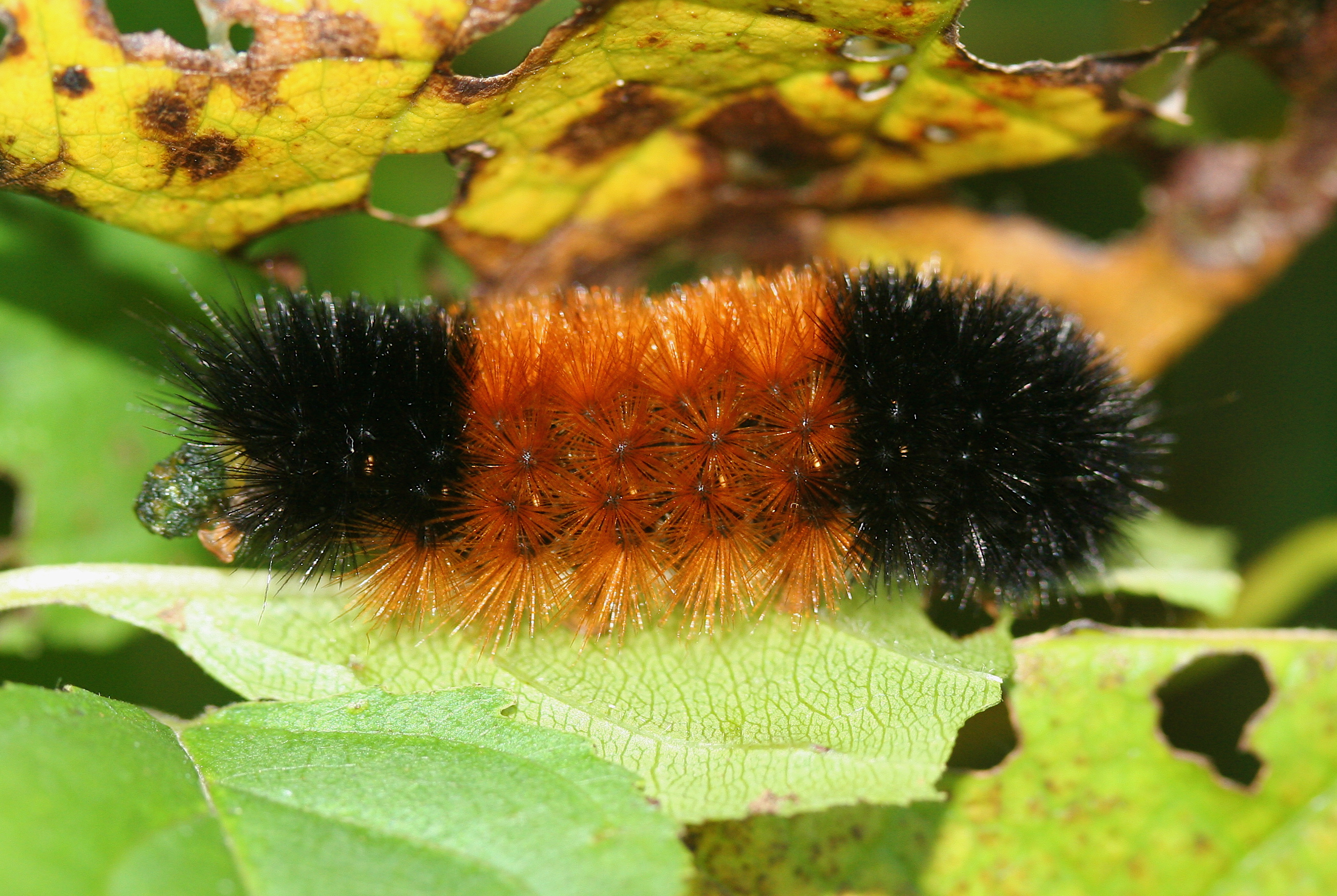 Lepidoptera - Arctiidae - Pyrrharctia isabella caterpillar (woolly bear caterpillar)